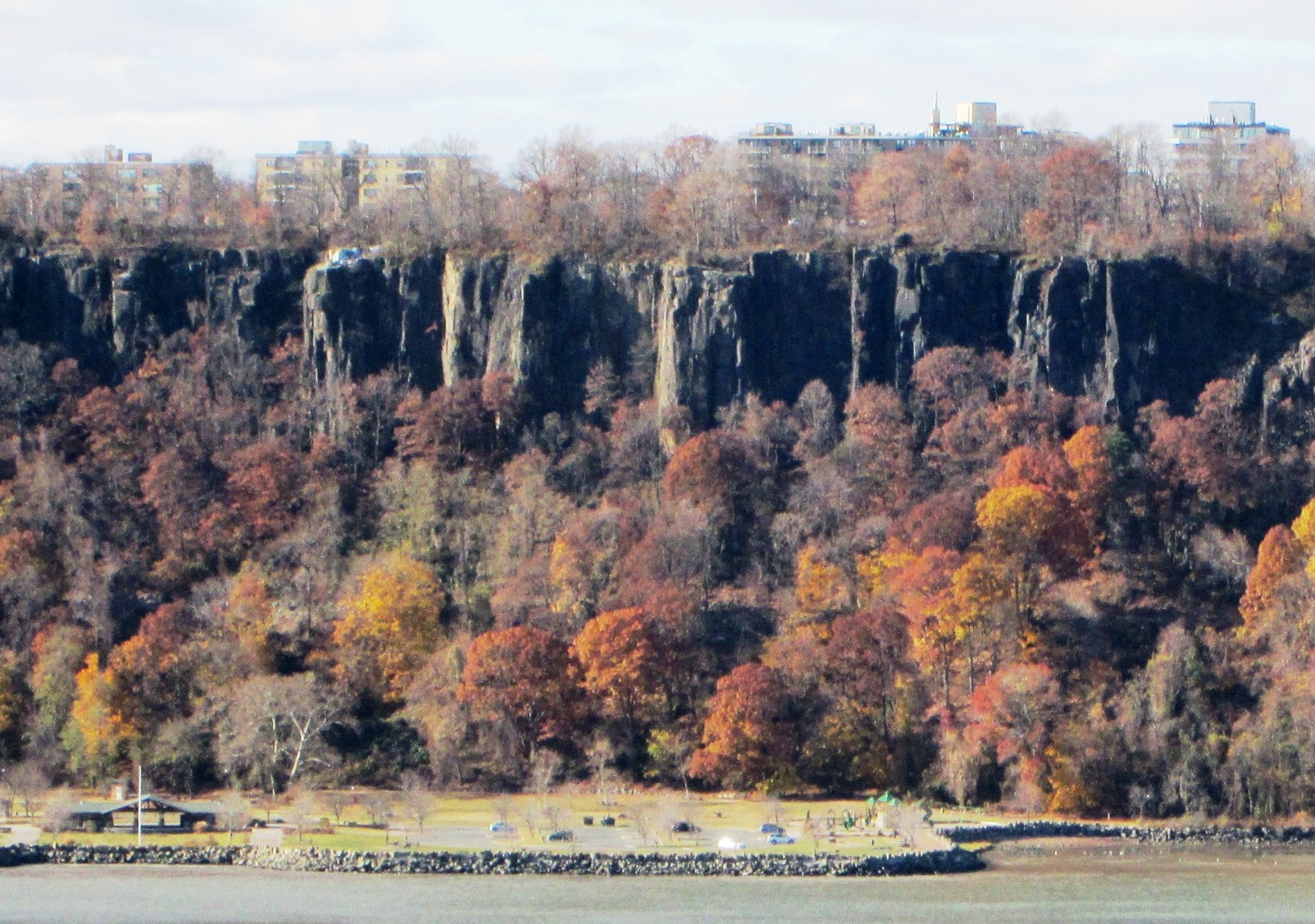 A view of the Hudson River Palisades in Palisades Interstate Park in Fort Lee, New Jersey, as seen from East 187th Street and Chittenden Avenue in Manhattan, New York City.